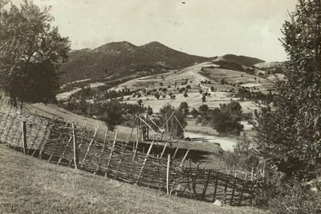 Bulgaria